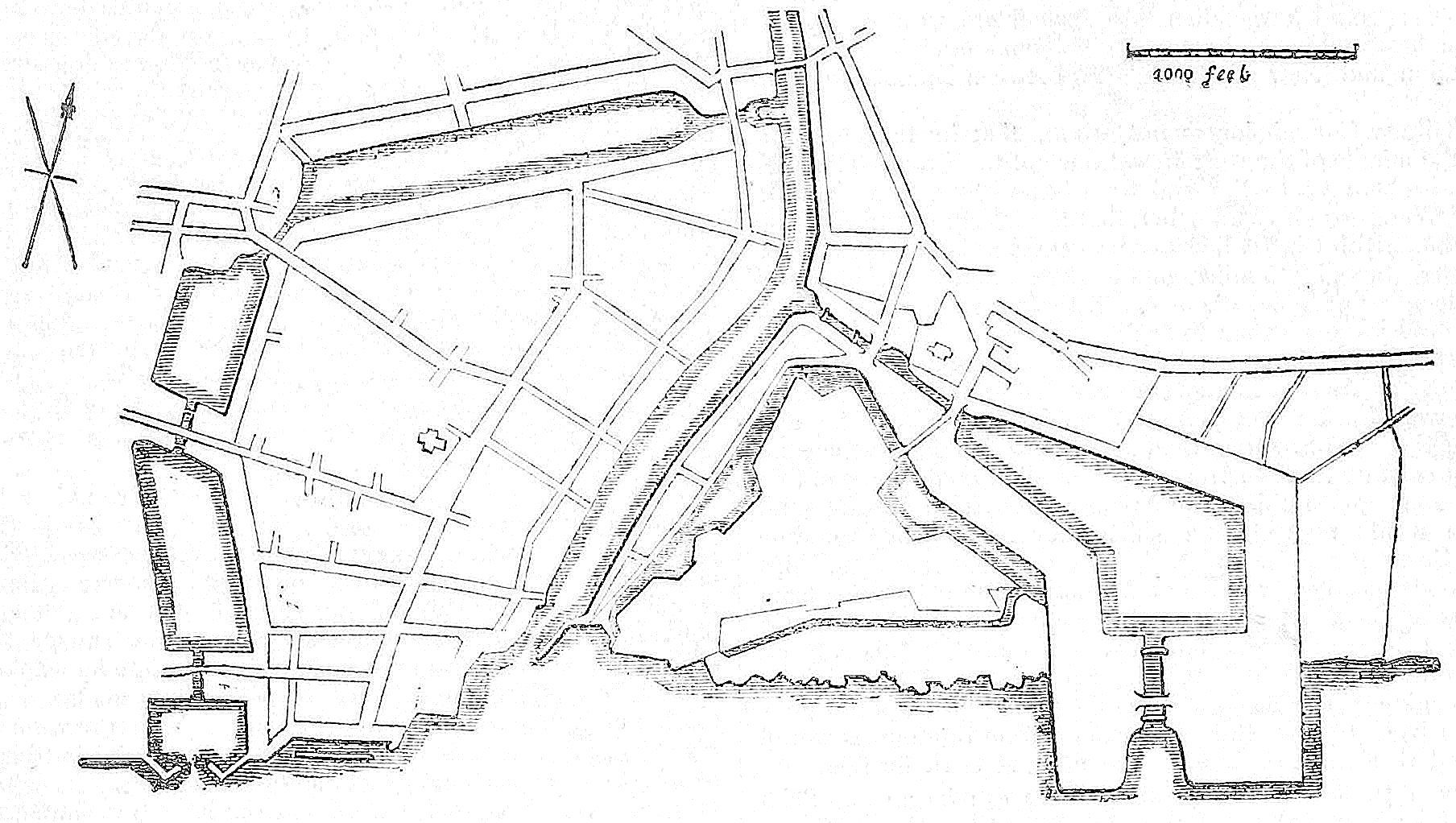 Diagram of the proposed "Queen's Dock" for the "Queen's Dock Company", Kingston upon Hull, UK c.1839 A forerunner of the Victoria Dock, and to a similar design. Unbuilt Design by Thomas Oldham Published In the The Civil engineer and architect's journal, scientific and railway gazette (1839) p.16 (retouched, annotations removed)